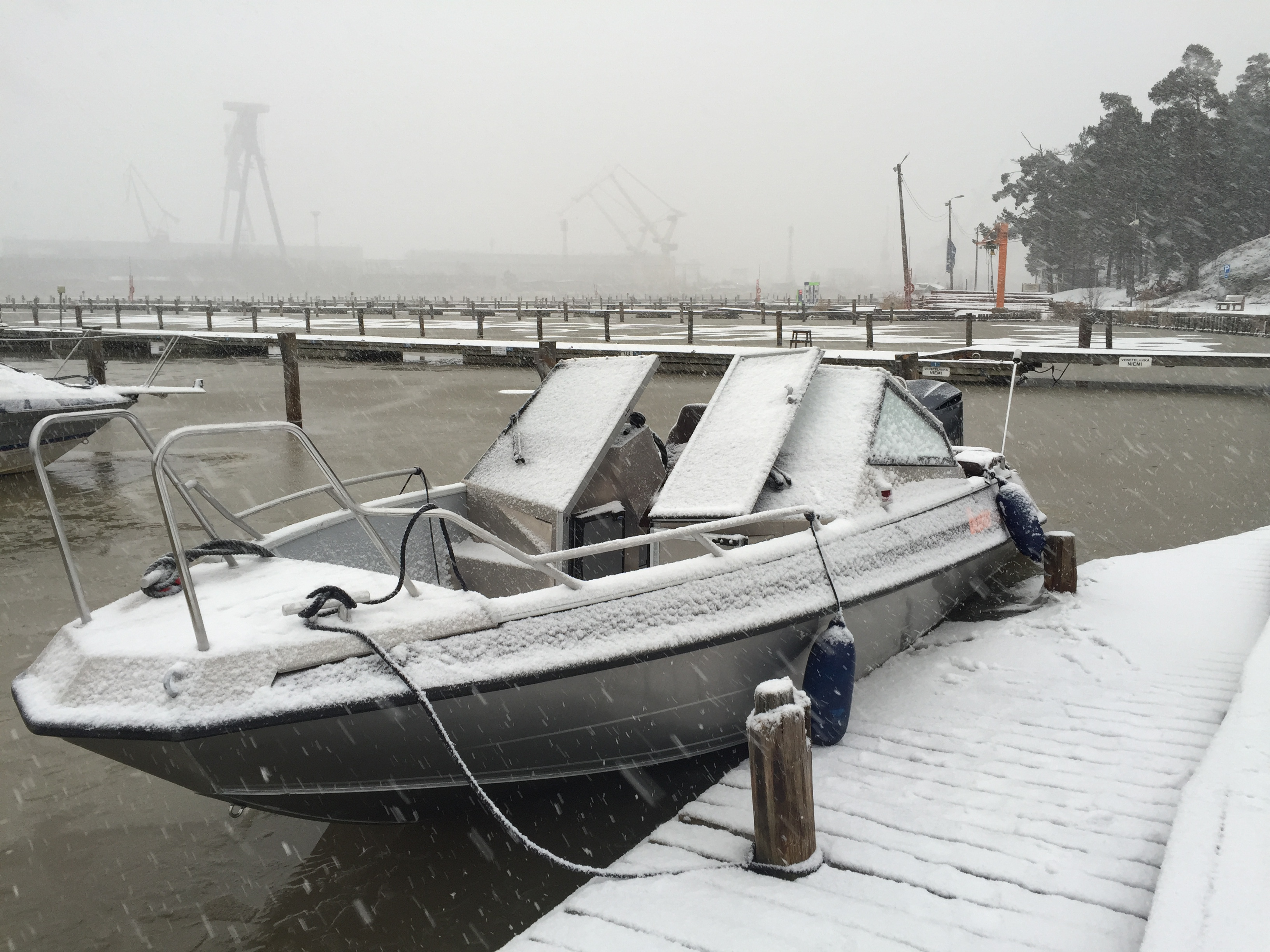 Buster SuperMagnum aluminium boat, December 2014, Raisionlahti harbour, Raisio, Finland, The Archipelago Sea. Meyer Turku shipyard visible behind the harbour.